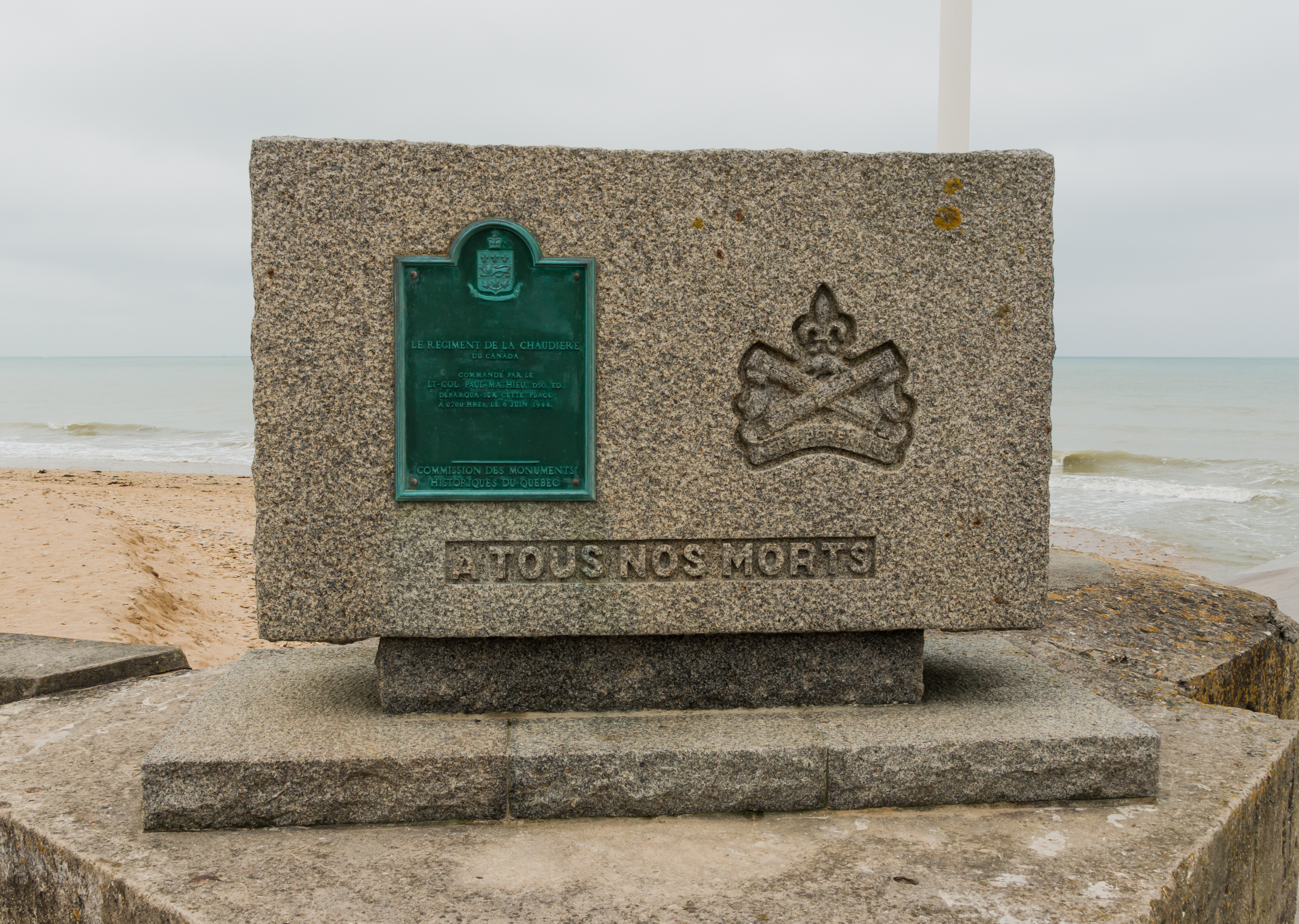 Monument to Regiment de la Chaudière, Juno Beach, Calvados, Normandy, France